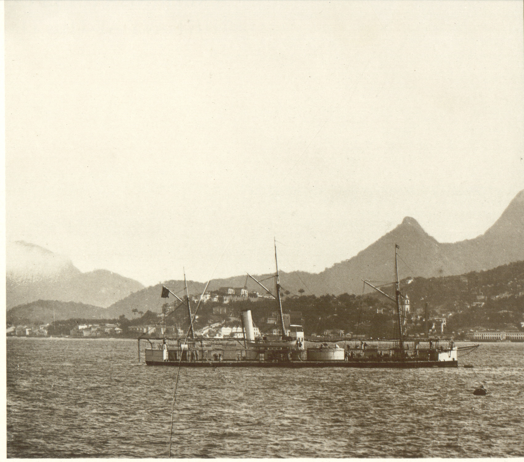 Brazilian Ironclad Bahia, launched in 1865